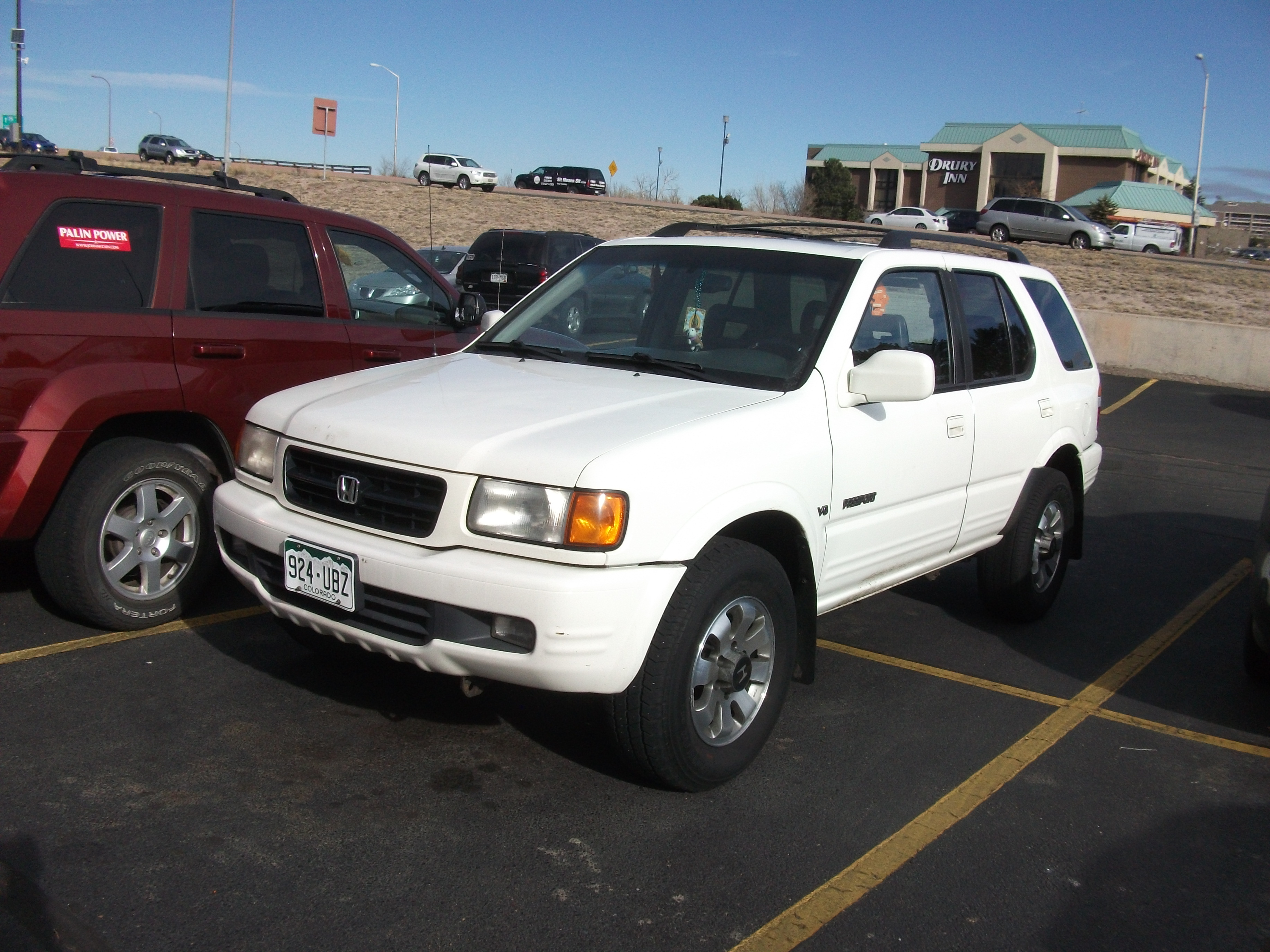 Honda Passport - these where sold in Canada as Isuzu but not in Honda form.